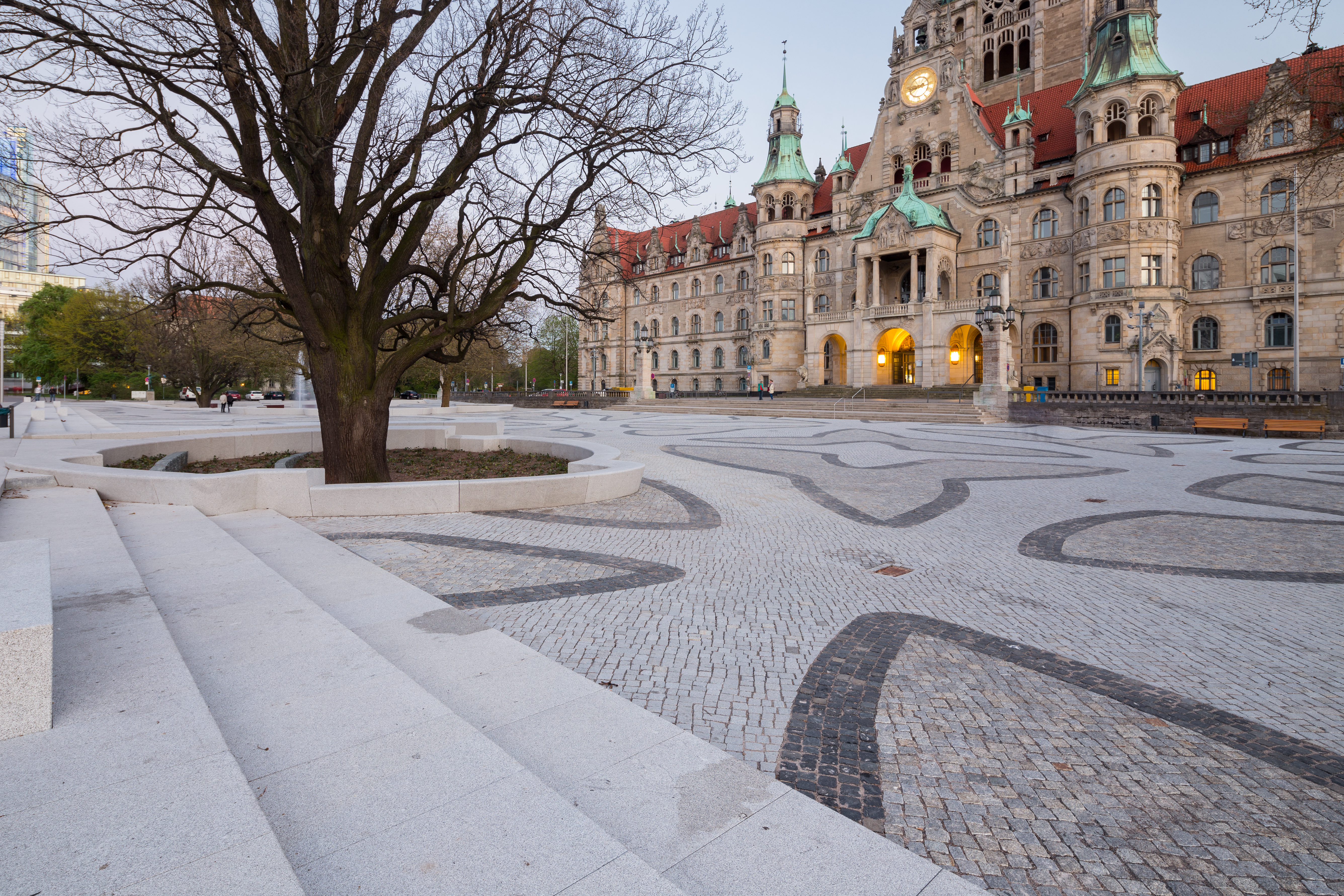 Refurbished Trammplatz square in front of Hannover's New Townhall in Mitte quarter of Hannover, Germany.